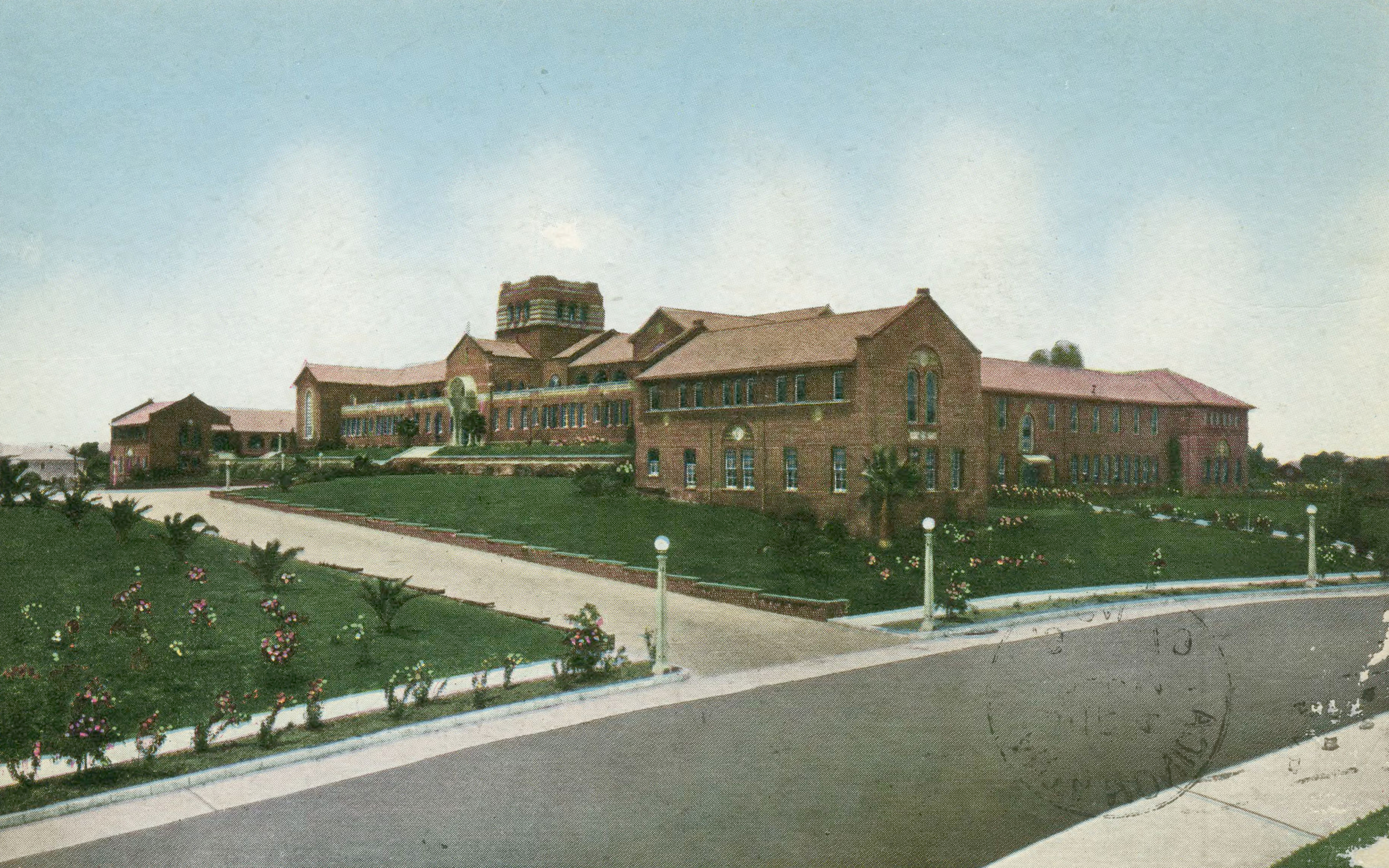 From postcard captioned Santa Monica High School